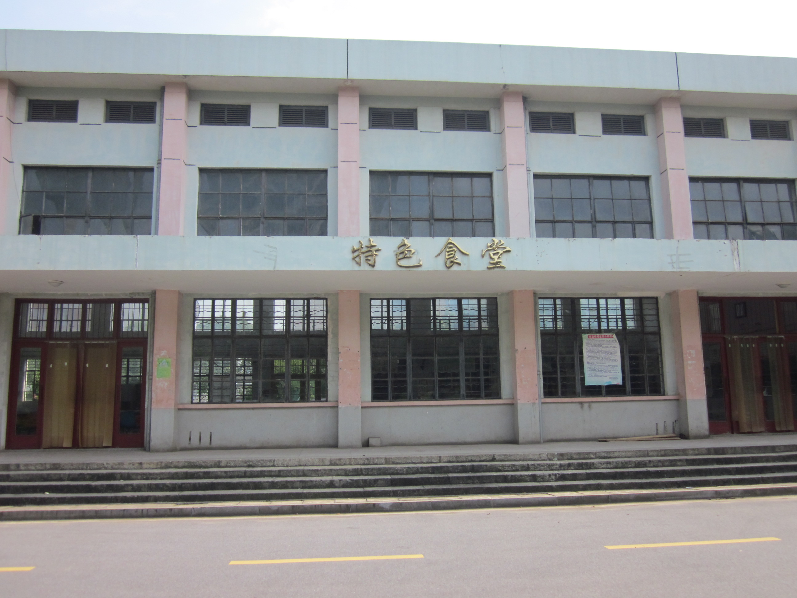 Hunan Women's University (simplified